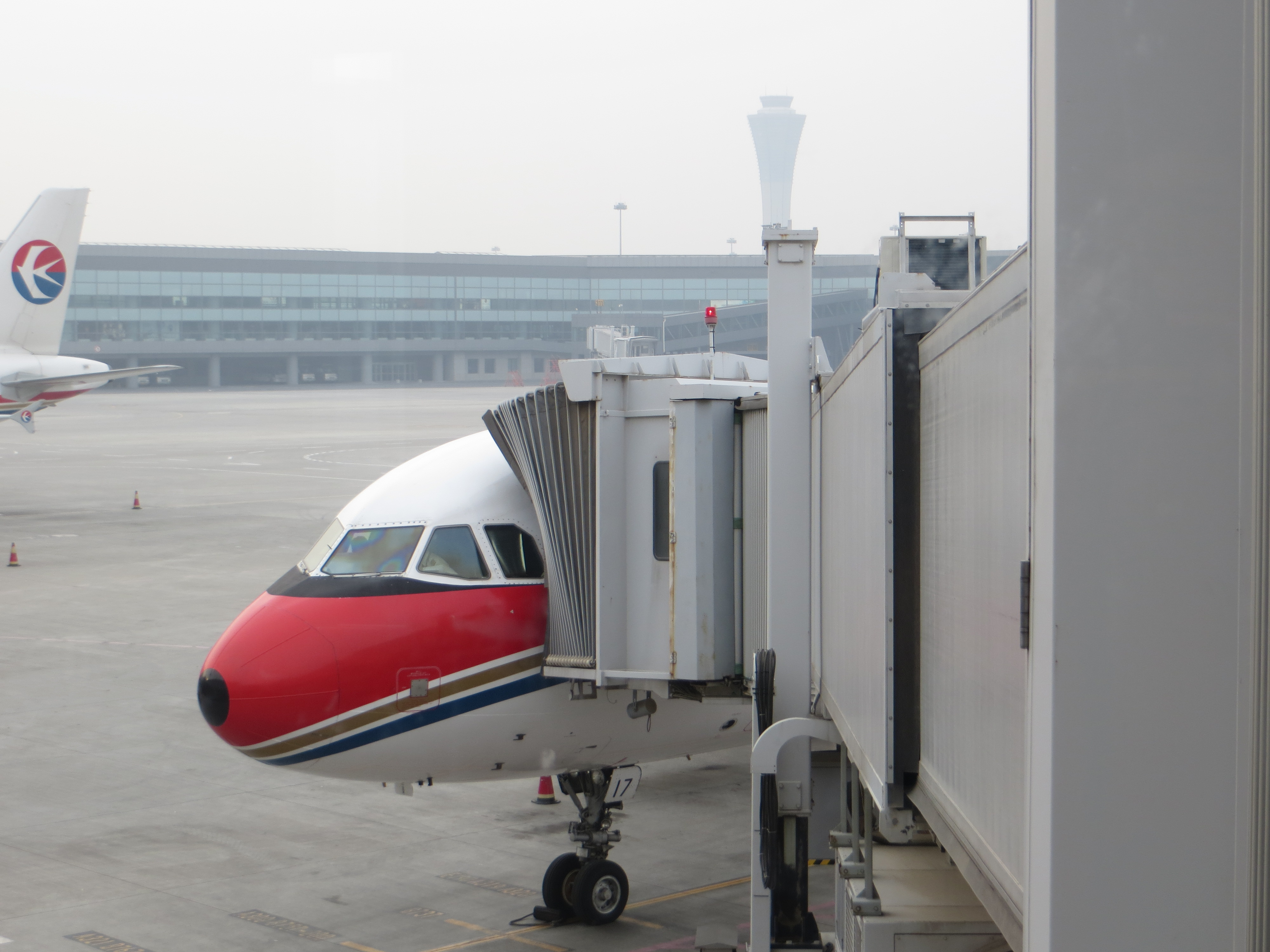 A China Eastern A319 boarding at Xi'an Xianyang Int'l Airport, China.